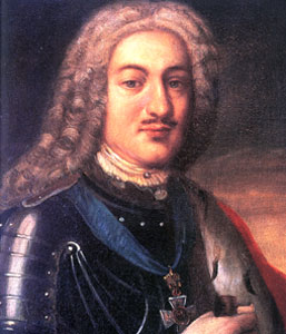 Georg Wilhelm, Markgraf von Brandenburg-Bayreuth; founder of the Ordre de la Sincerité, which later became the Order of the Red Eagle